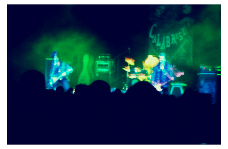 This a picture I took at a Calabrese show. It is a picture of the band playing live.